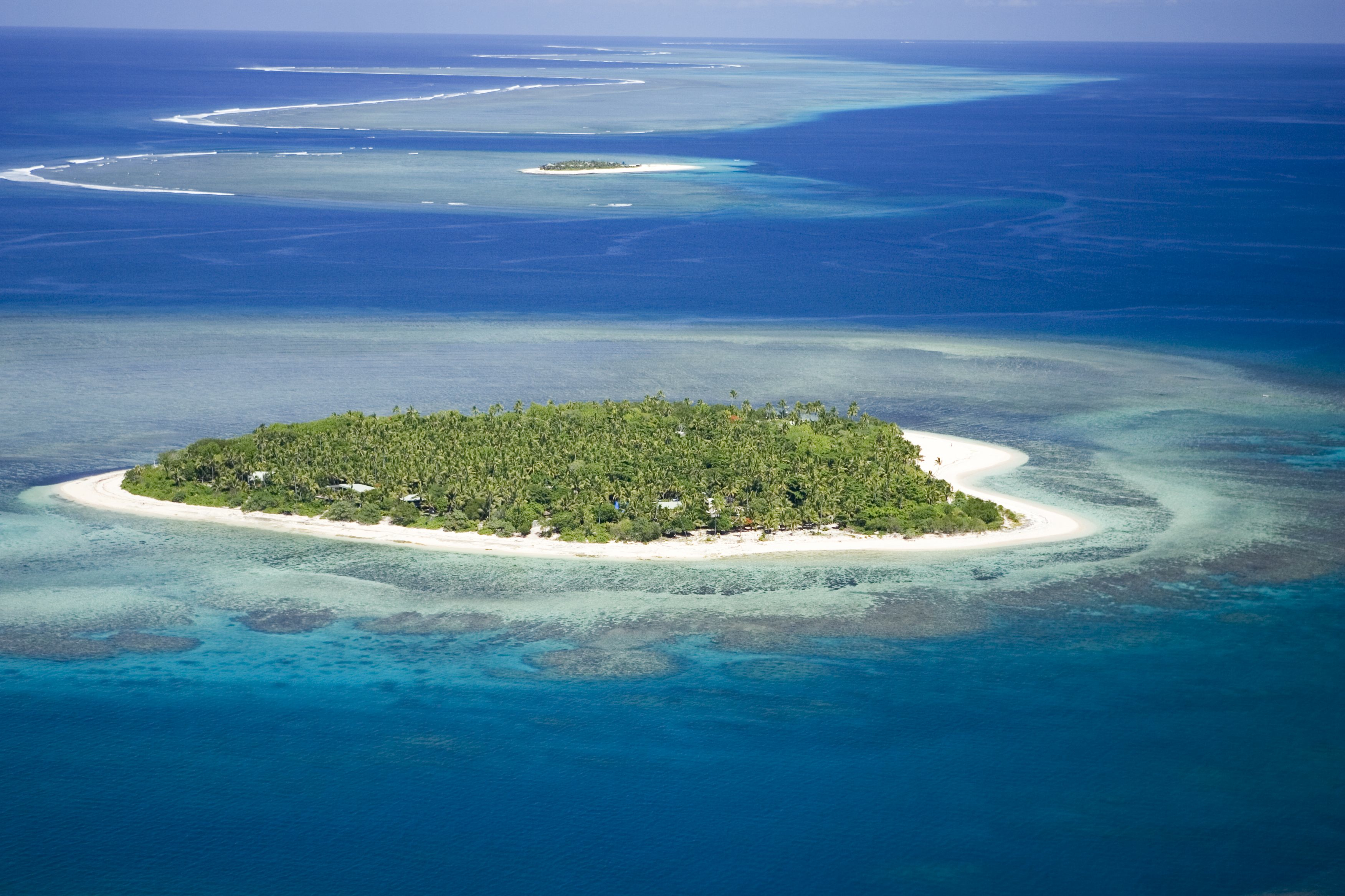 Aerial view of Tavarua Island Resort